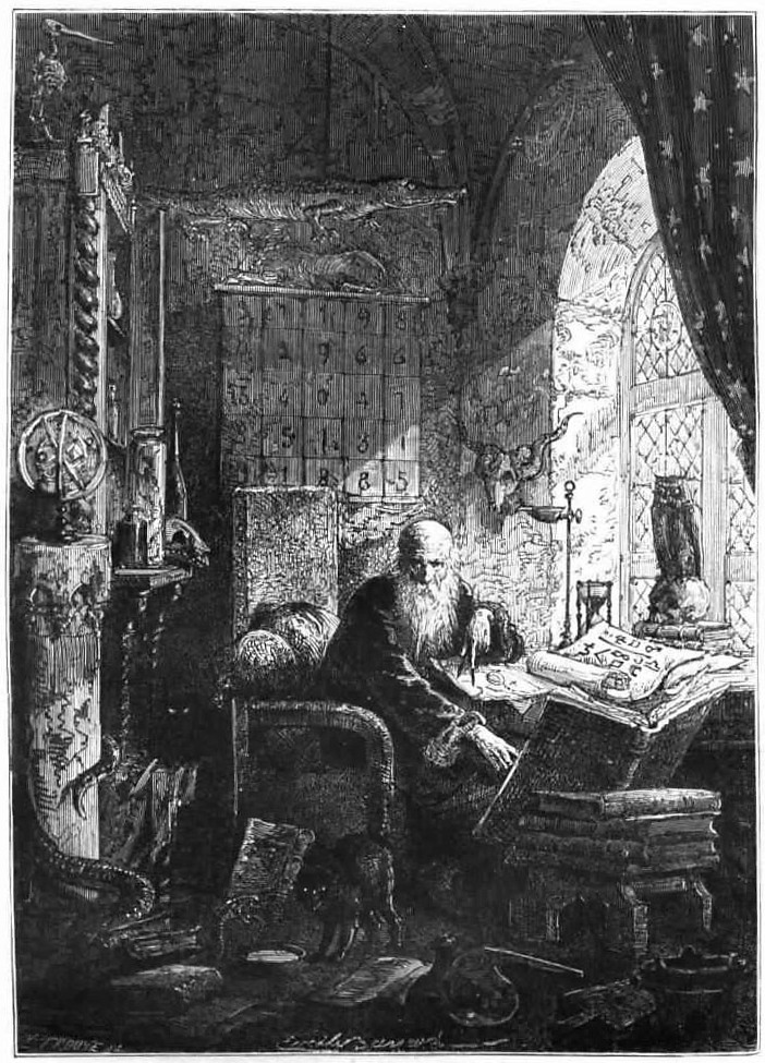 Francisco Junctinus. Illustration from History of Magic by Emile Bayard